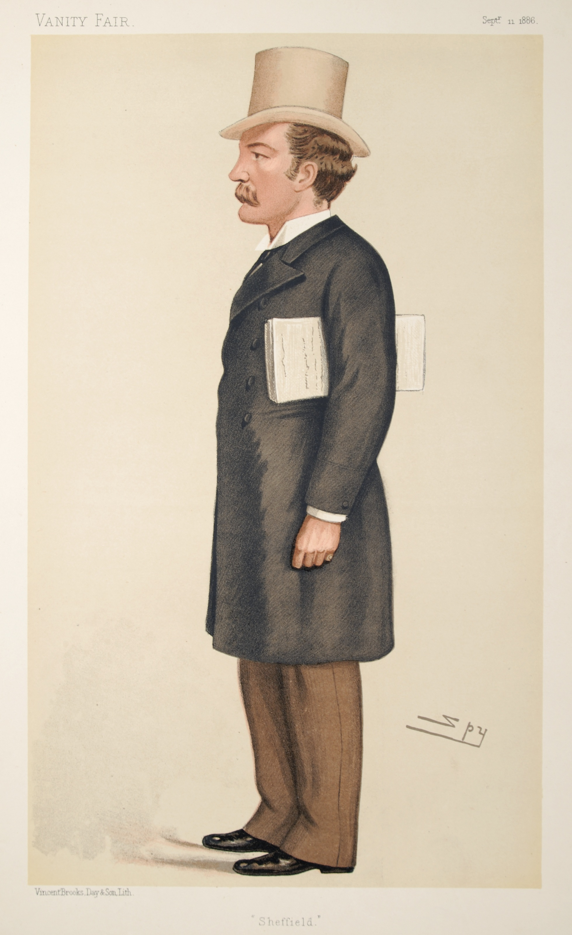 Statesmen No.498: Caricature of Mr CB Stuart-Wortley MP. Caption reads: "Sheffield"